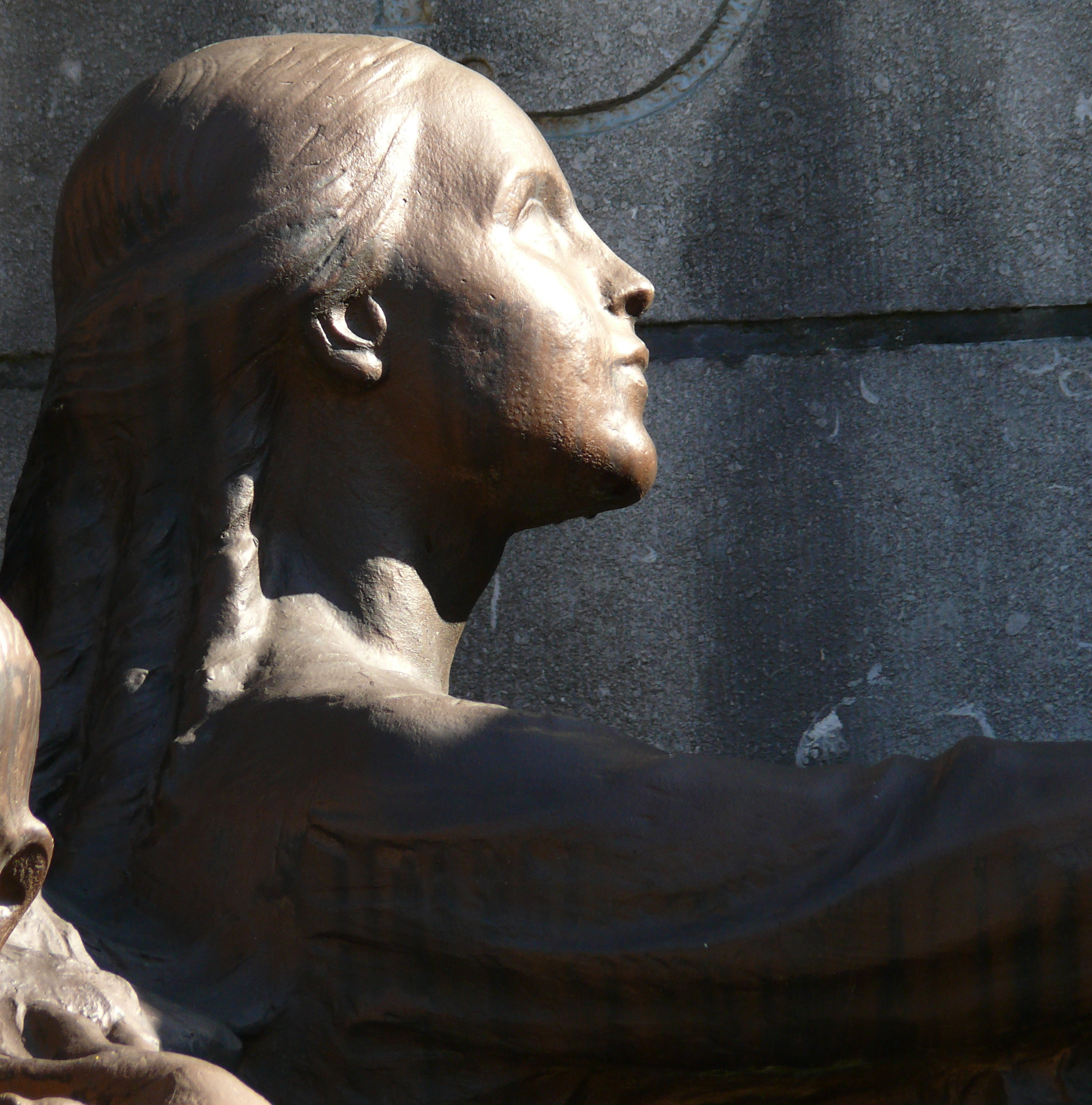 Detail of the war monument (1923) at the Heldenplein (Heroes' square), in Dendermonde. It was designed by Geo Verbanck(statues) and J. Van den Hende (monument).